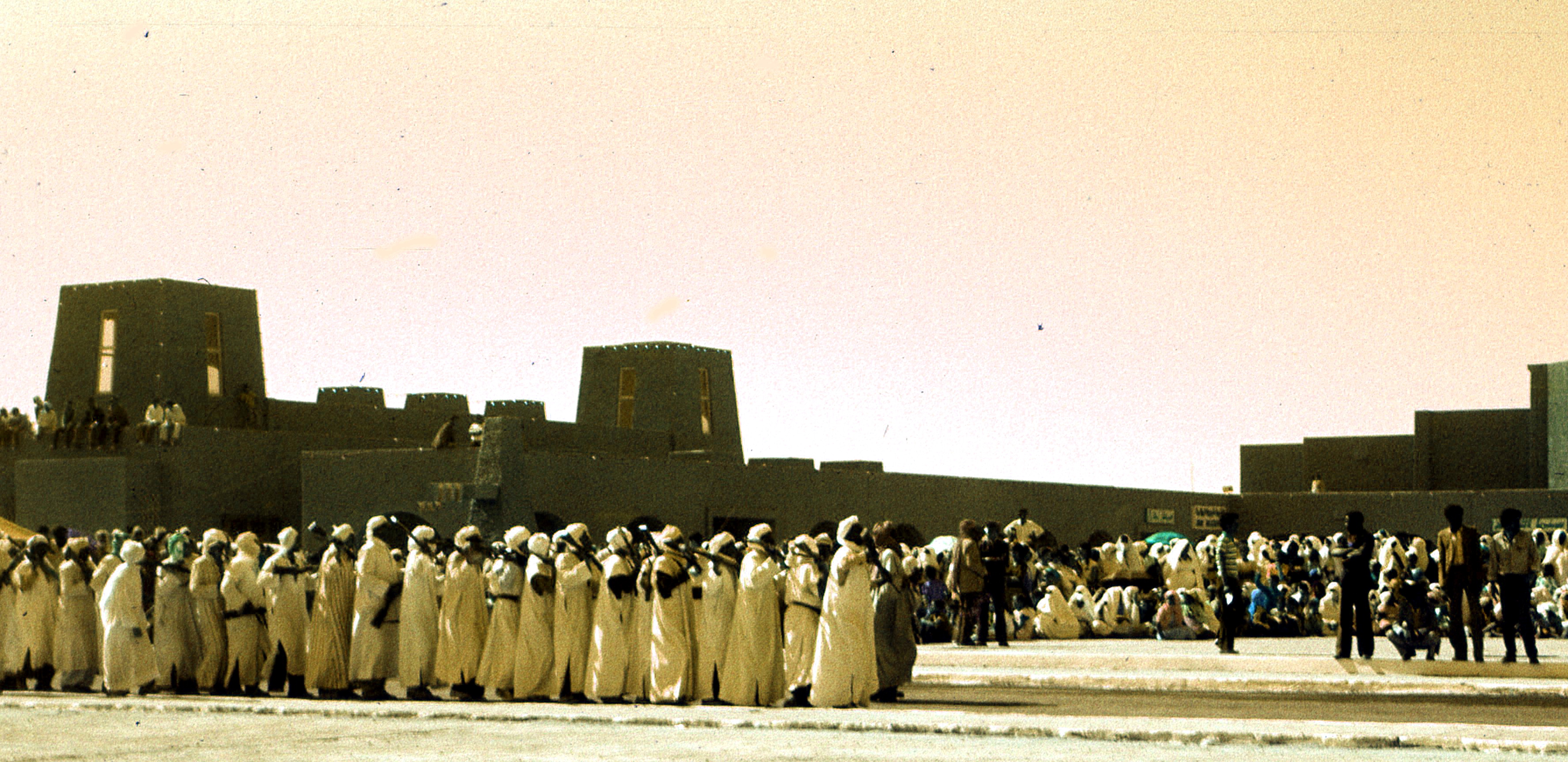 Scene of Fantasia, Adrar, Algeria.